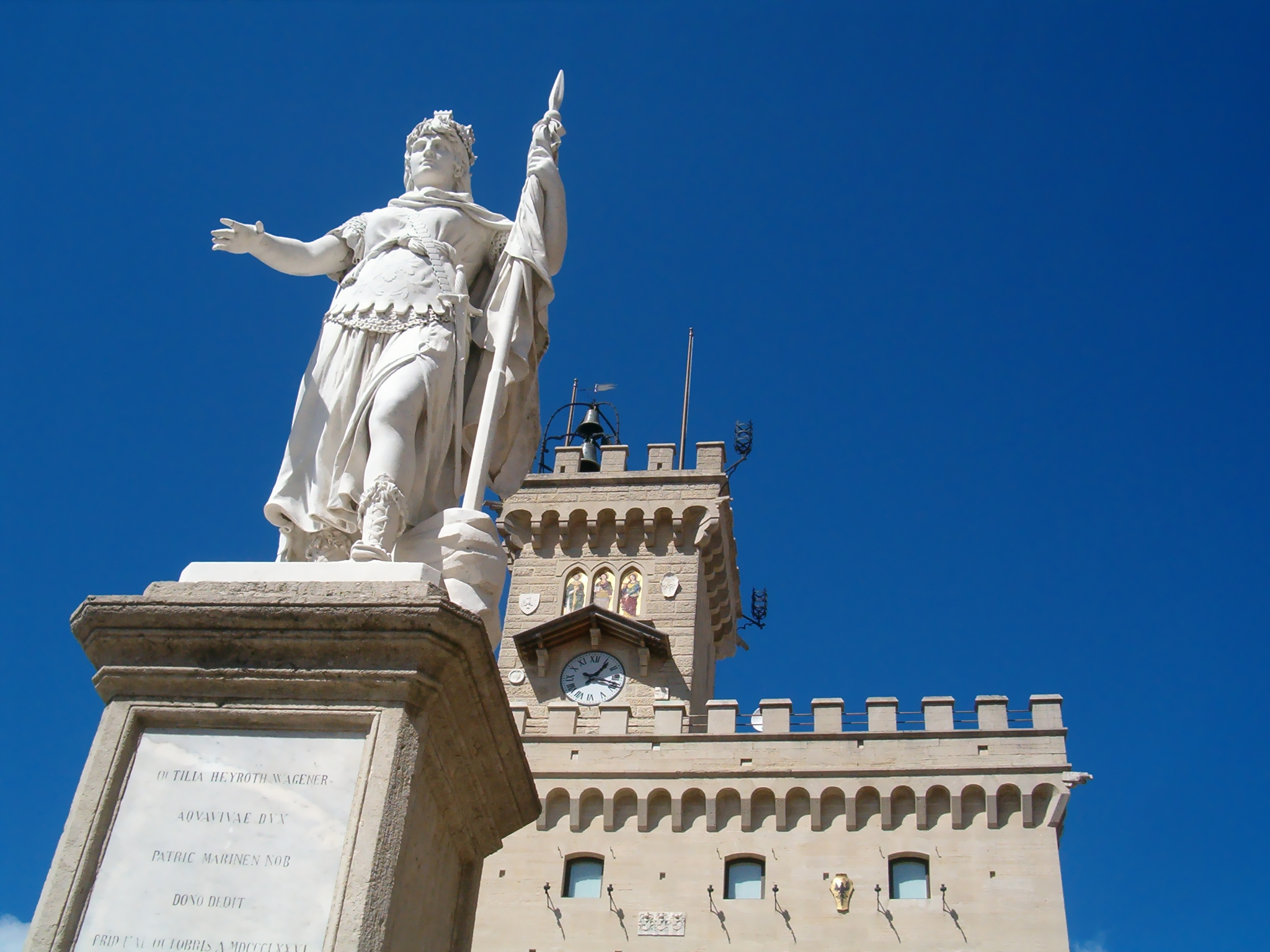 Statue of Liberty in San Marino, in the Pianello (or Piazza della Libertà) in front of the Palazzo pubblico di San Marino, by Stefano Galletti (1833-1905); donated by Otilia Heyroth Wagener in 1876.